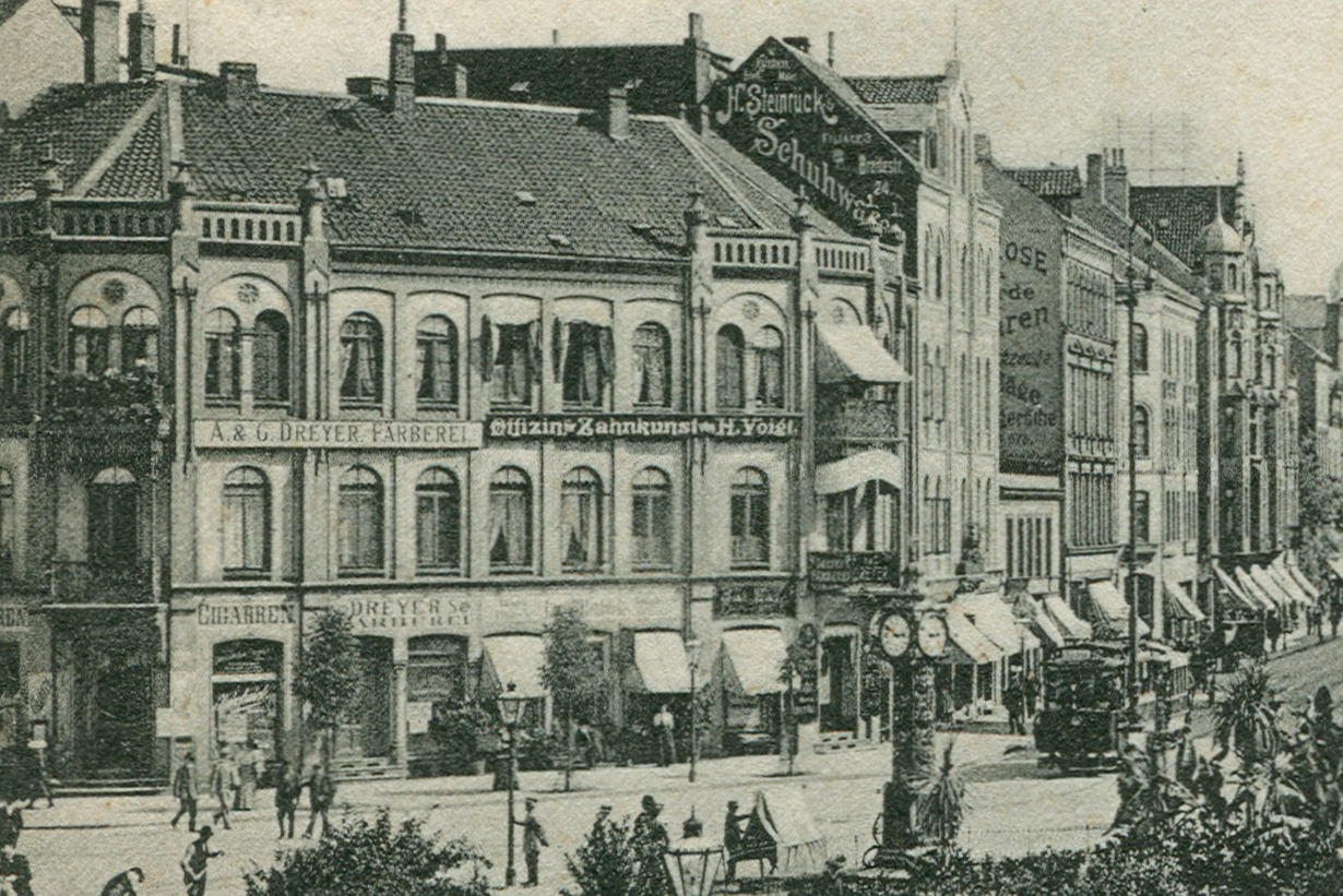 Hanover, Aegidientorplatz